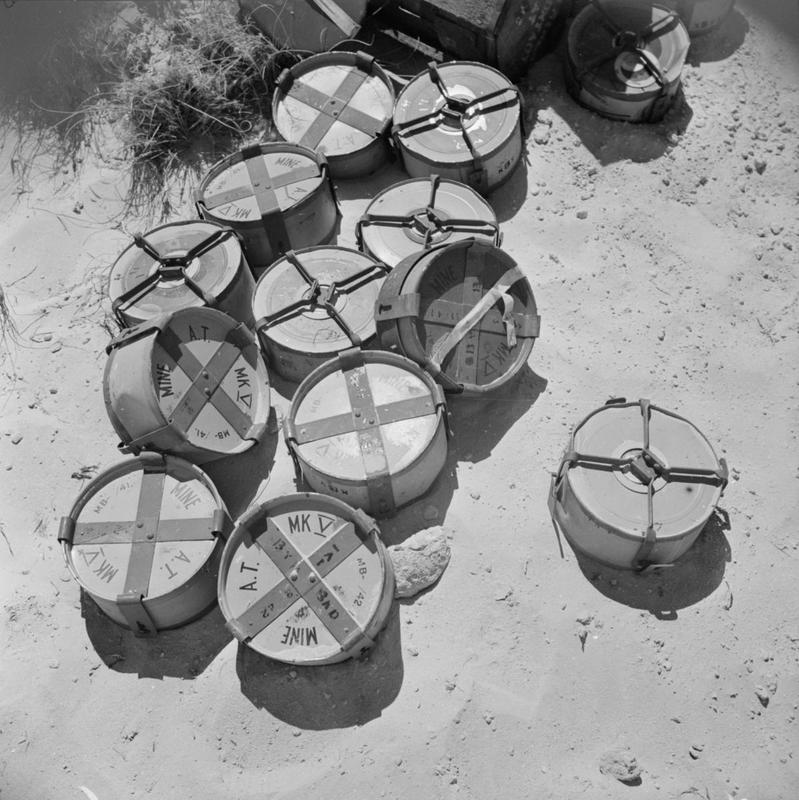 Commonwealth Forces in North Africa 1940-43 A group of Mk V mines about to be laid by South African sappers, Egypt, 2 July 1942.